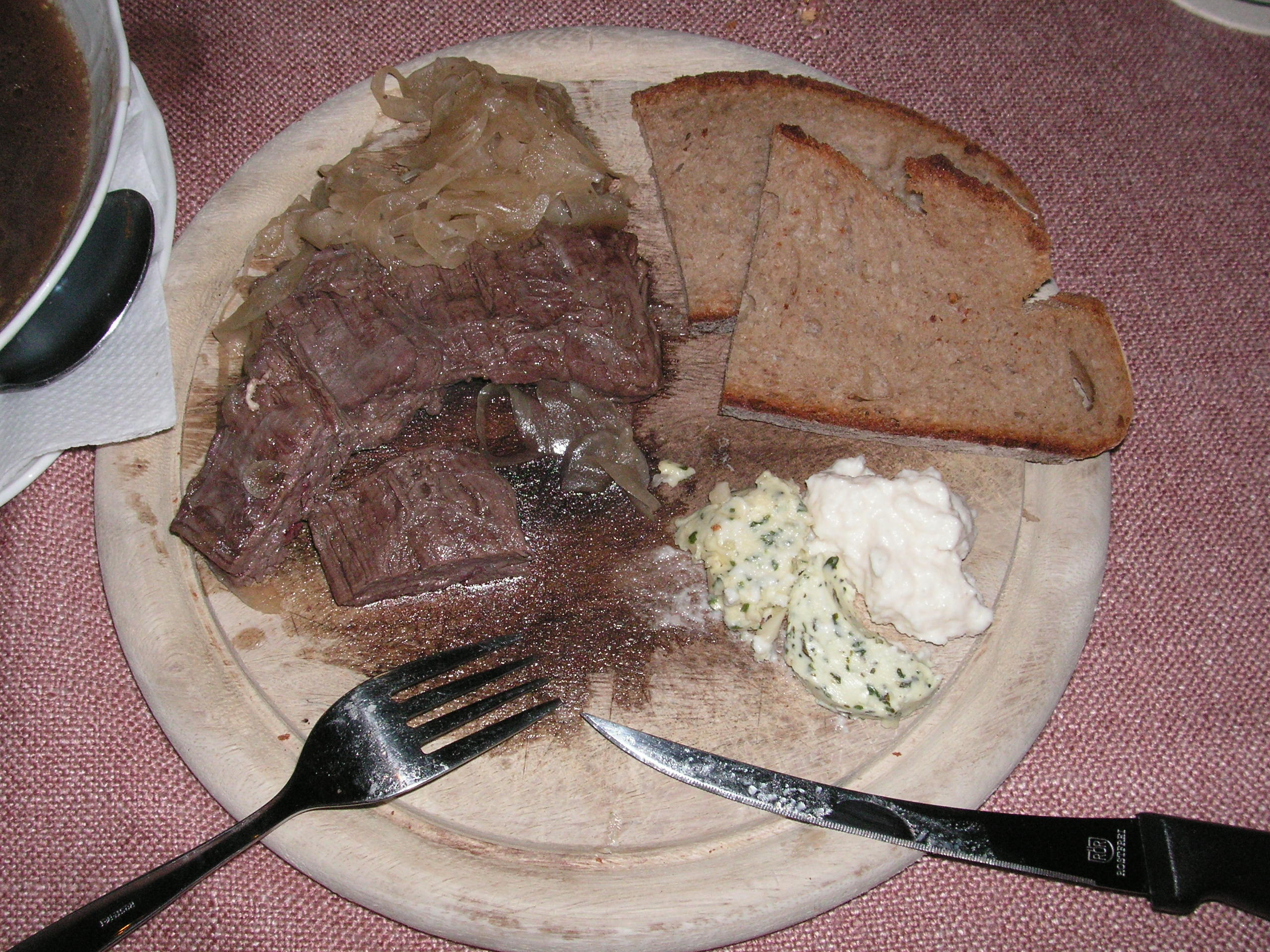 Kronfleisch (skirt steak), a traditional bavarian dish. Served with onion rings, rye bread, composed butter (with herbs and garlic) and horseradish.